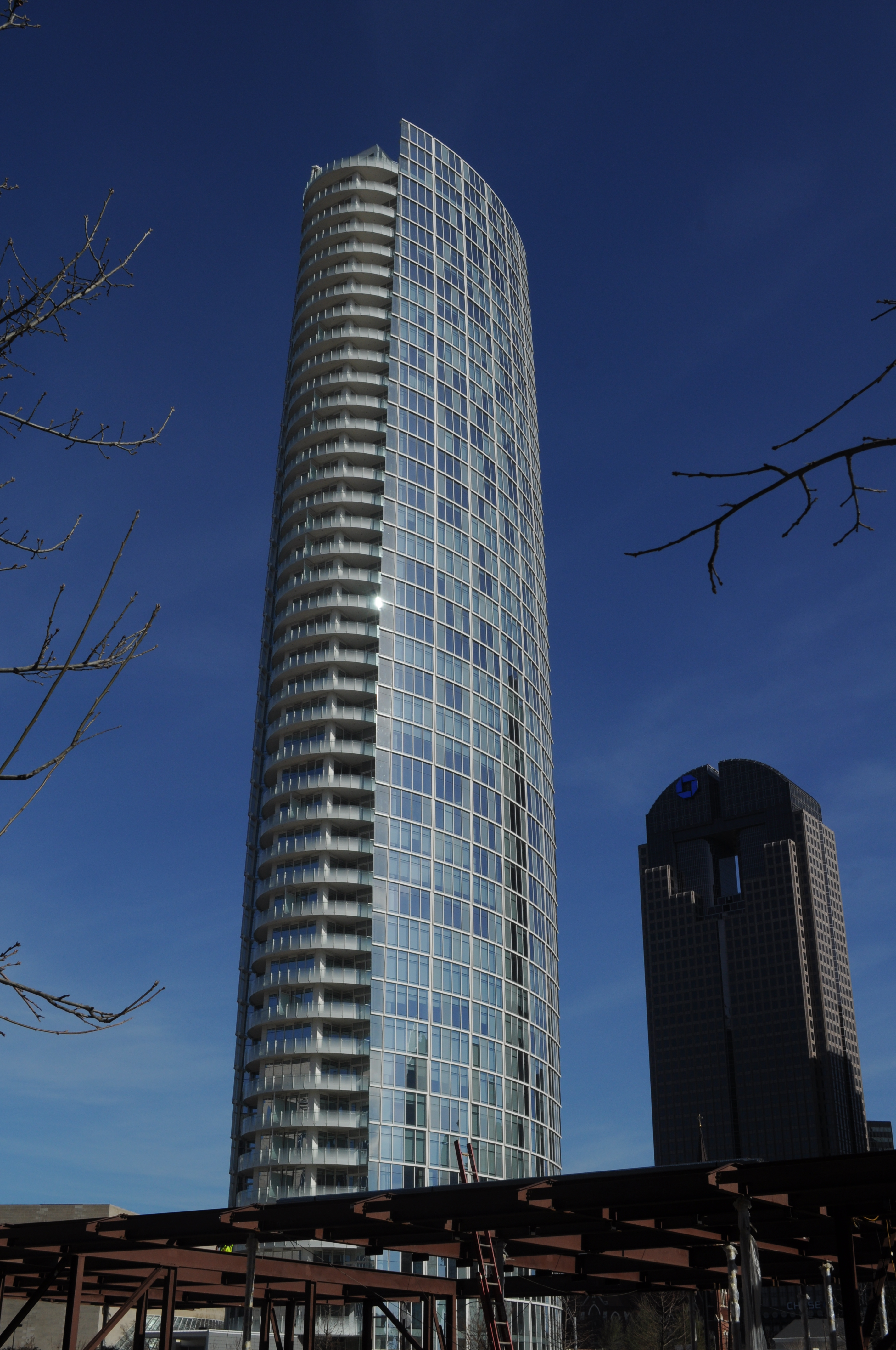 Museum Tower (left) & JPMorgan Chase Tower, Dallas, Texas, USA.